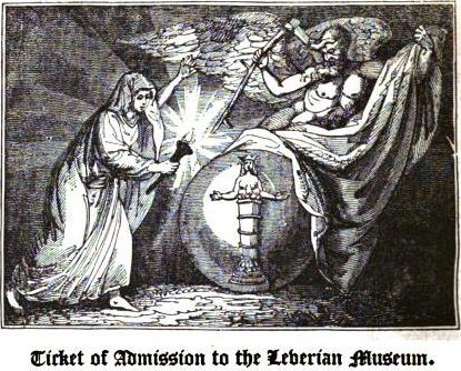 Entrance ticket for the Leverian Museum, Blackfriars Rotunda, London.